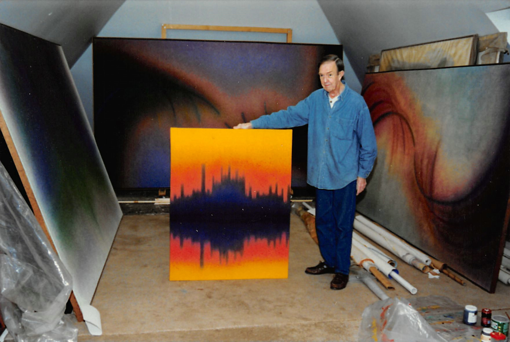 James Hilleary in his Studio holding one of the works in his Reflection Series paintings